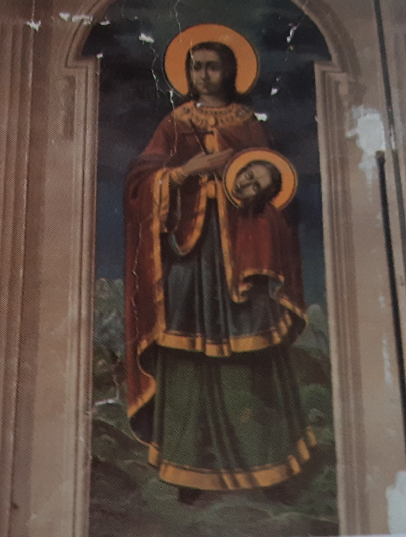 Holy Apostles of Serviotis Church